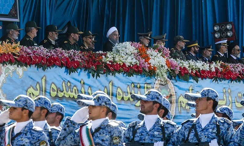 Army of Iran national day parade in Tehran